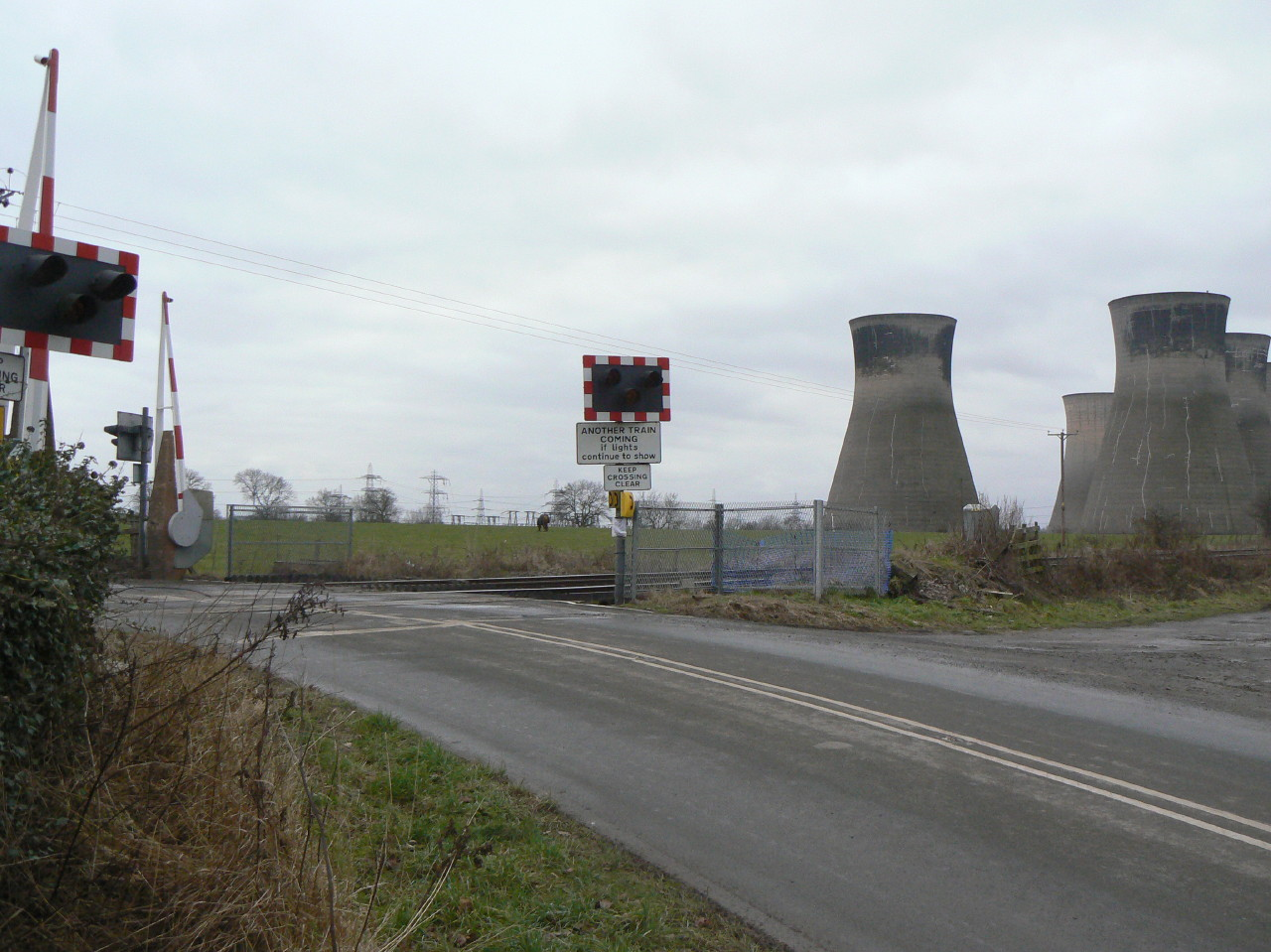 Bramwith Lane level crossing On the Doncaster avoiding line. The cooling towers are on the site of the former Thorpe Marsh Power Station.